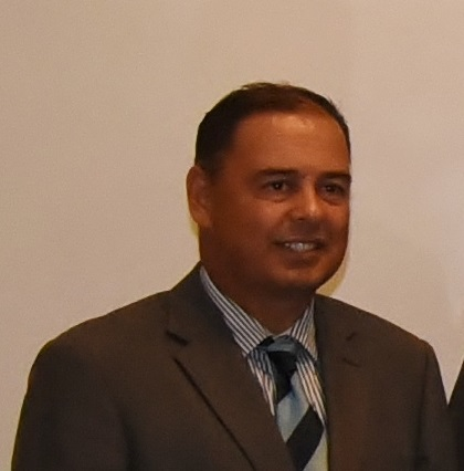 Mark Brown, Cook Islands MP, in the Cook Islands Cabinet Room, March 2017